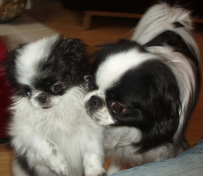 Picture of two female Japanese Chins, one approximately 3 years old and one approximately 3 months old